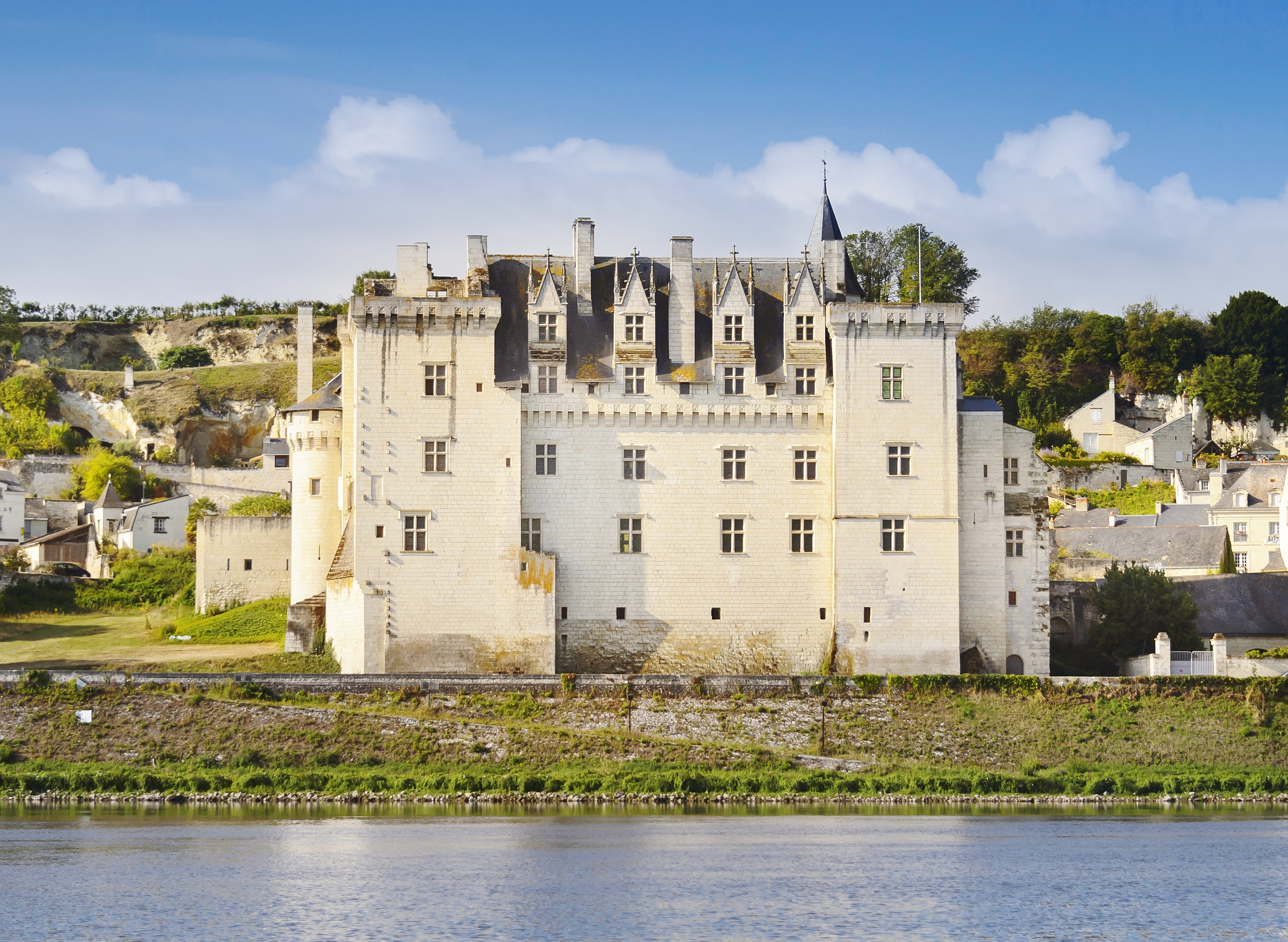 Château of Montrsoreau, the only Loire castle built in the riverbed